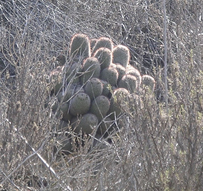 Large, old cluster of Mammillaria dioica